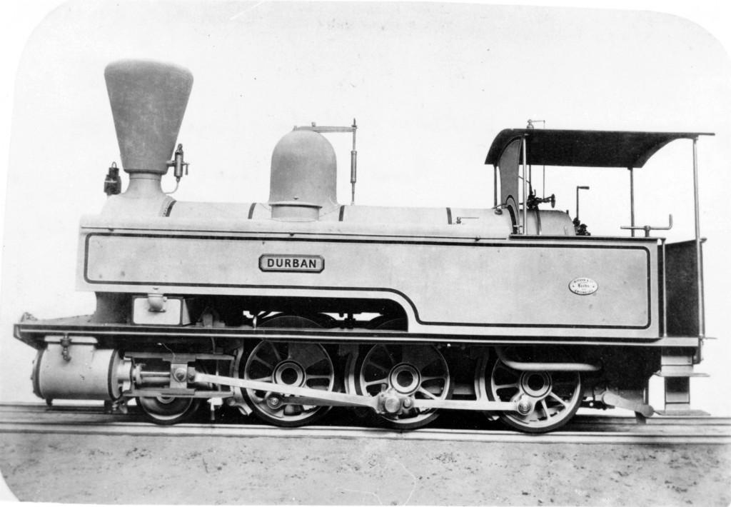 Natal Government Railway 2-6-0T no. 19, ex contractors Wythes & Jackson Ltd. No. 1 "Durban"